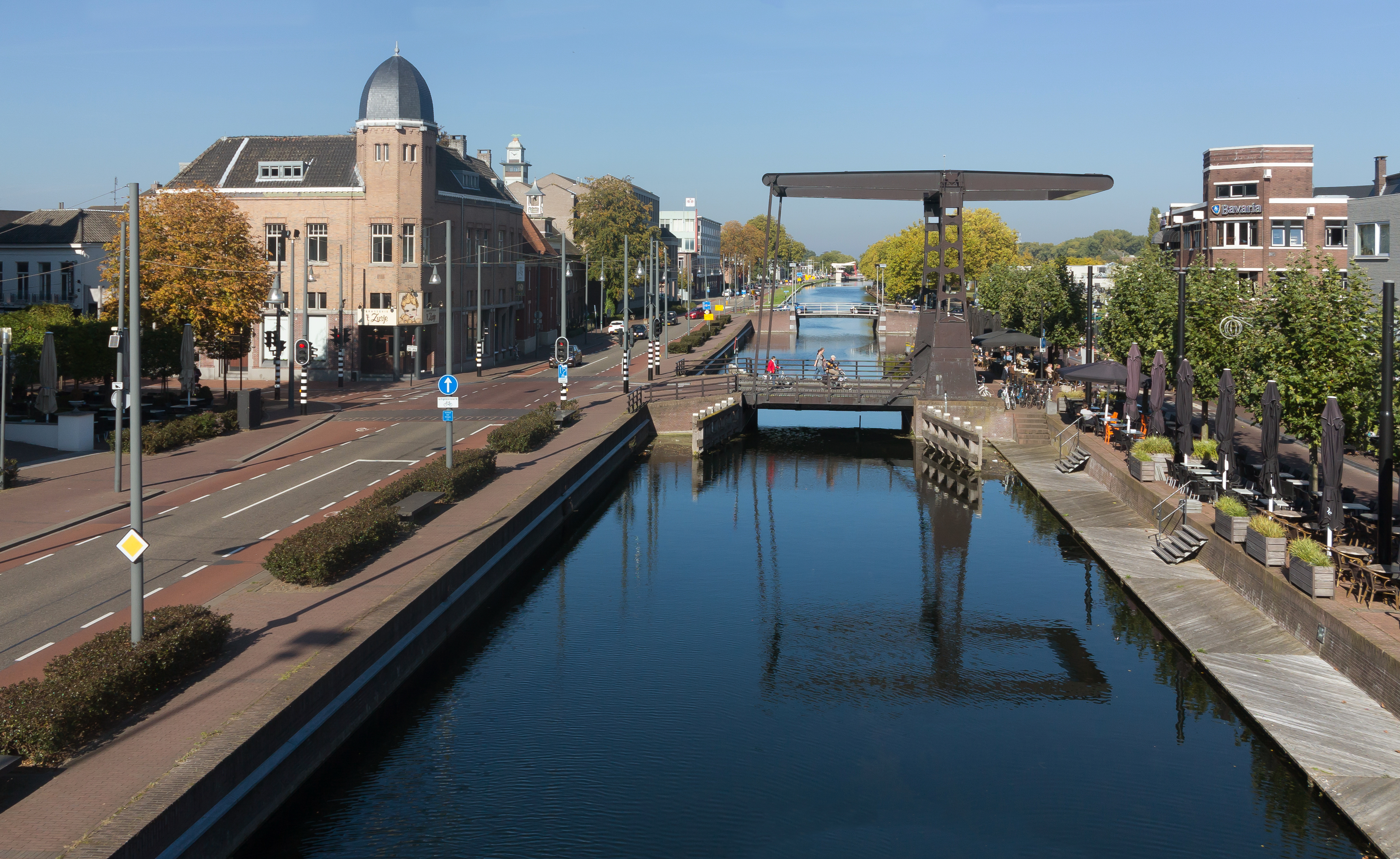 Helmond, view to the canal through Helmond from the Kasteeltraverse